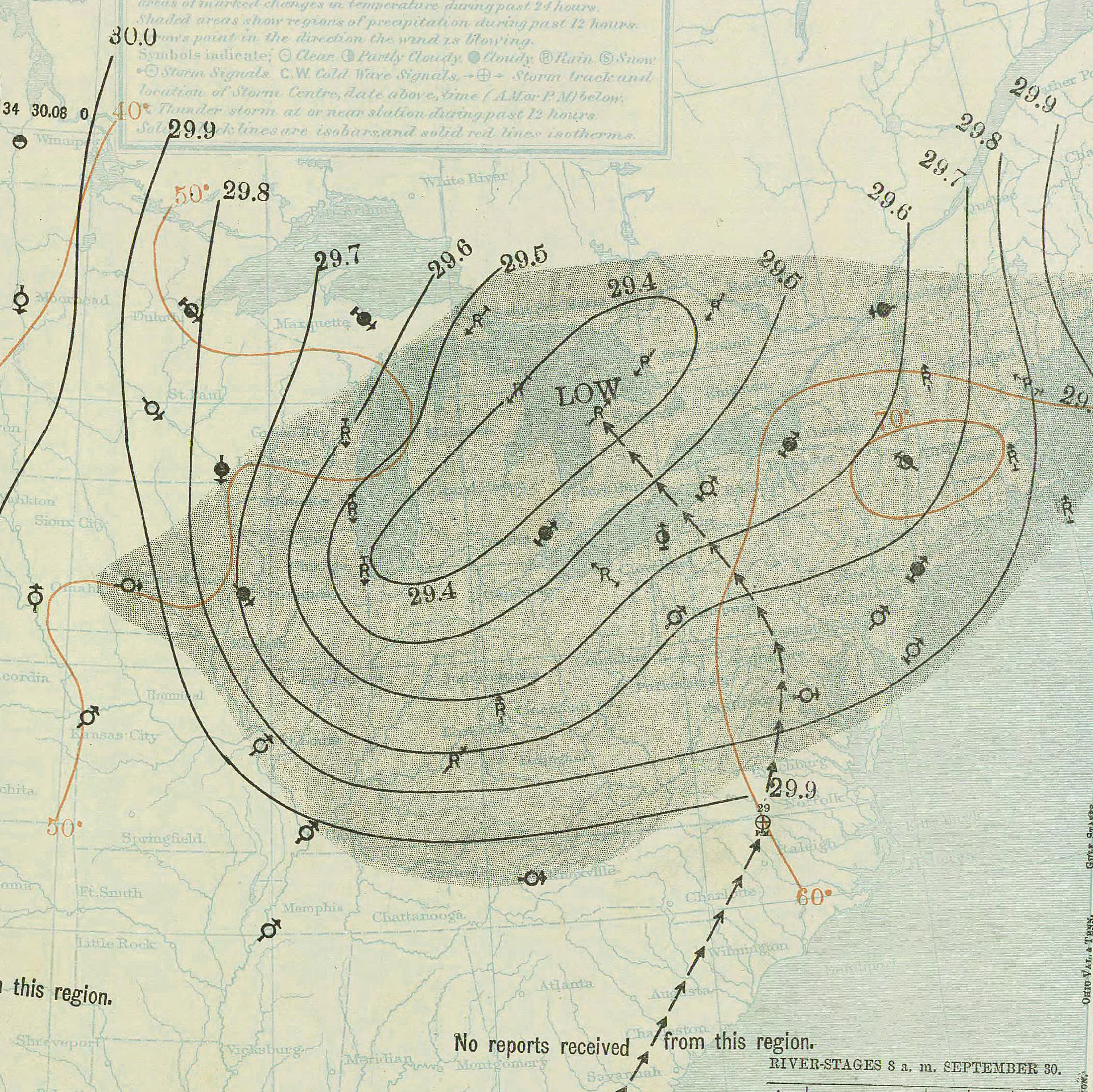 Surface weather analysis of the 1896 Cedar Keys hurricane at 8:00 am on September 30, 1896.